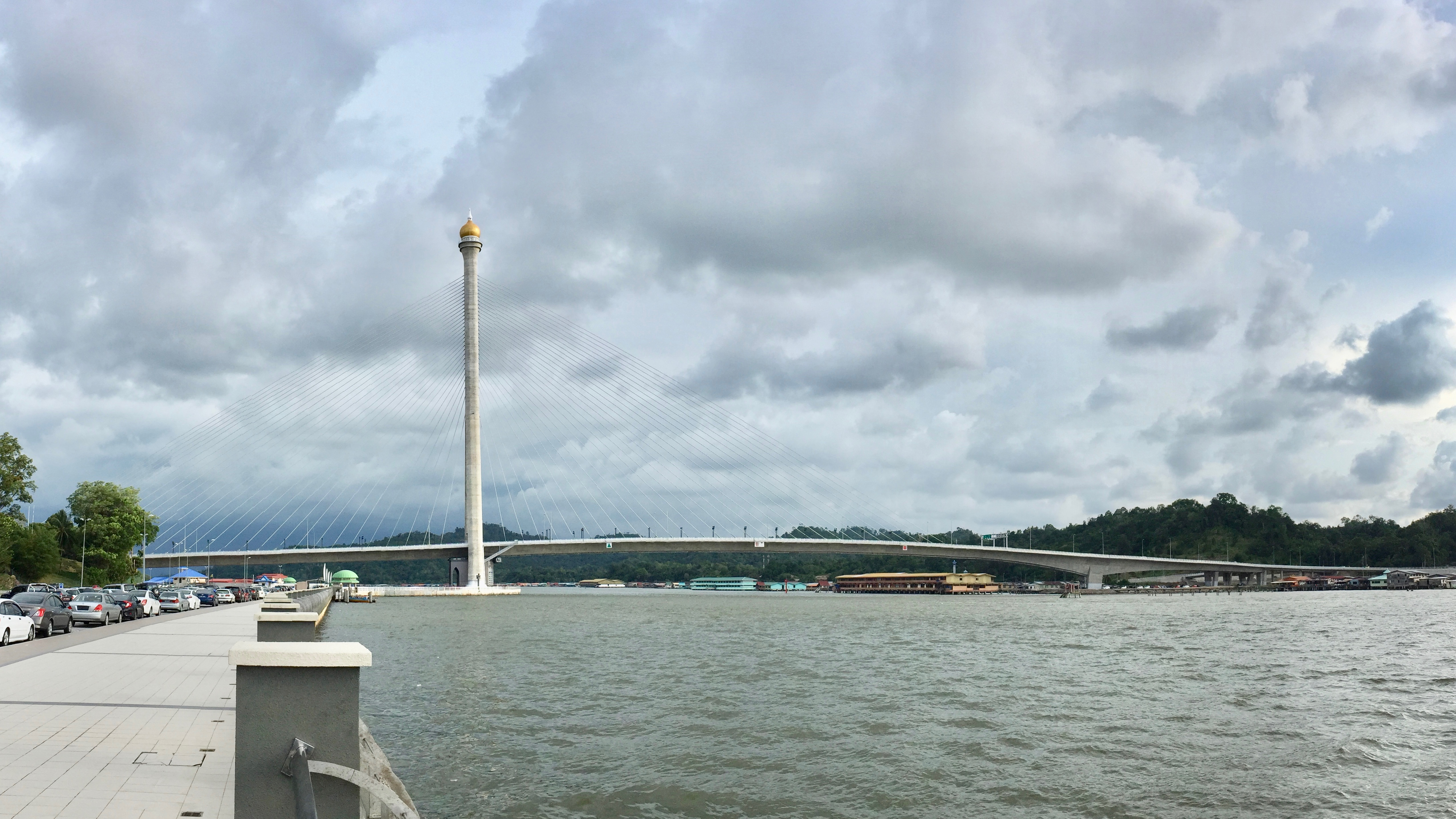 Raja Isteri Pengiran Anak Hajah Saleha Bridge. Taken on 20 May 2018.